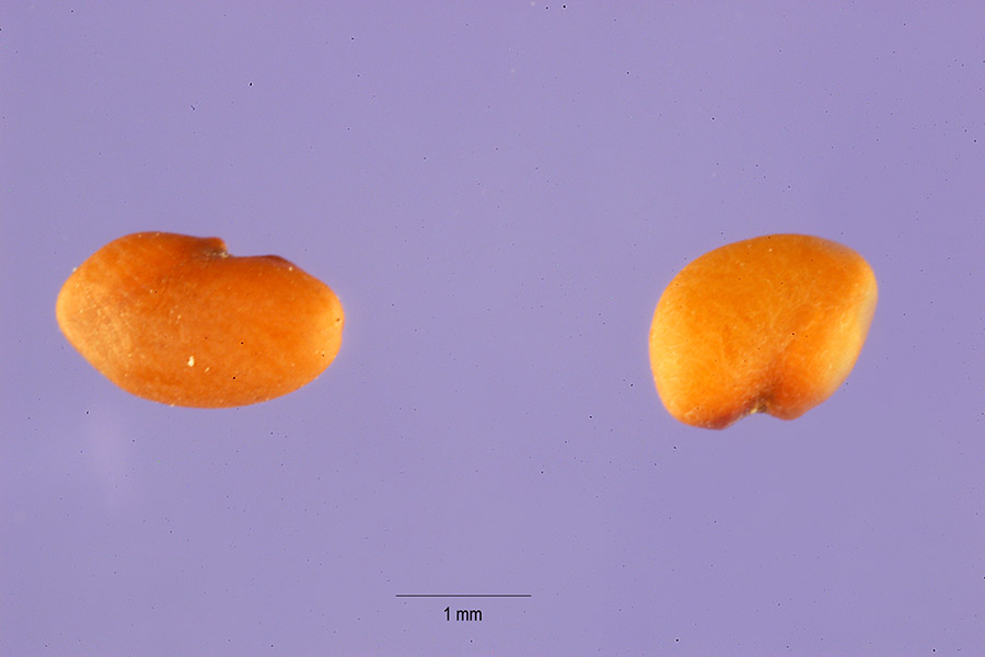 Photograph of Medicago sativa ssp. falcata (originally identified as Medicago falcata).